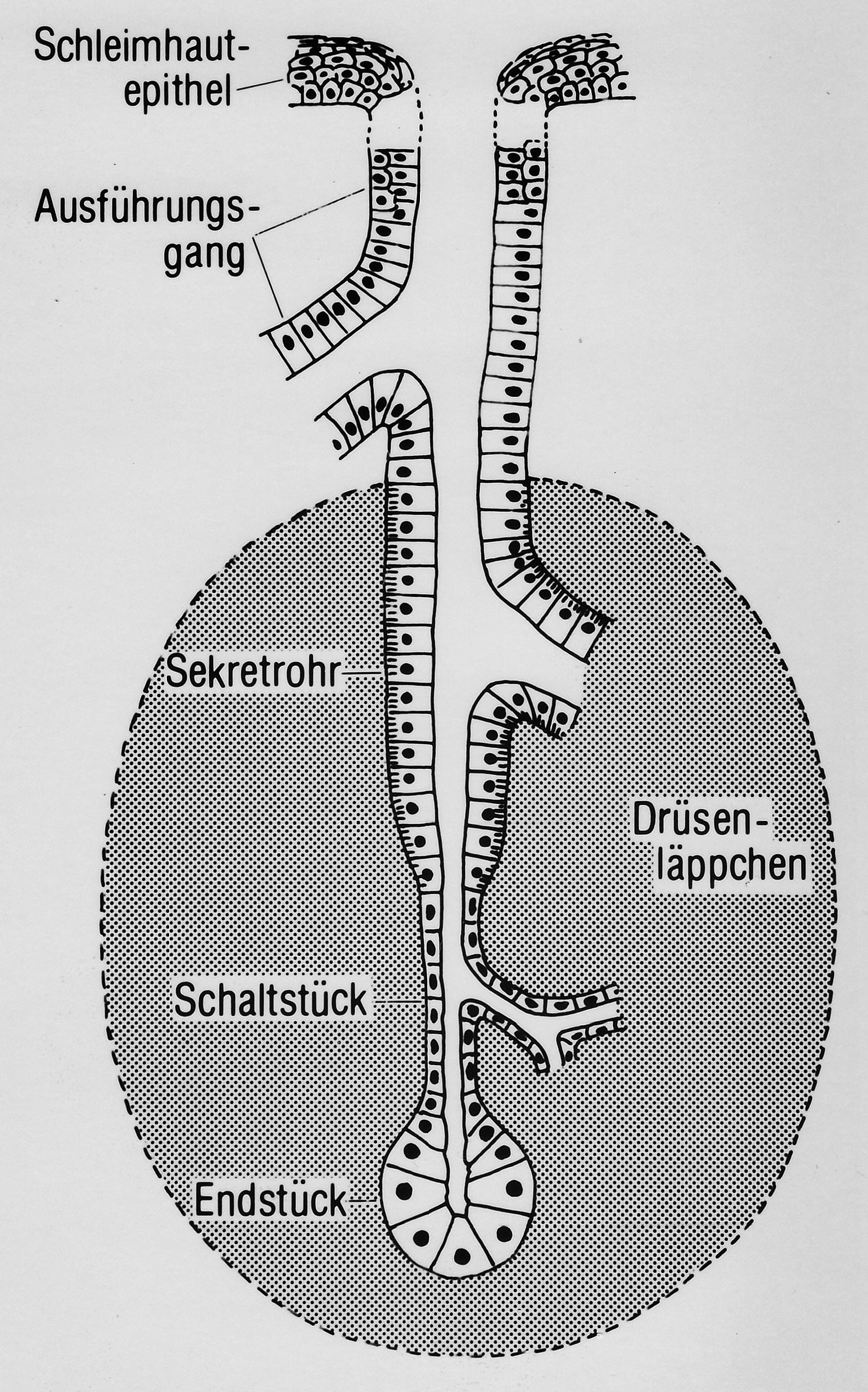 Schematic drawing of an exocrine gland